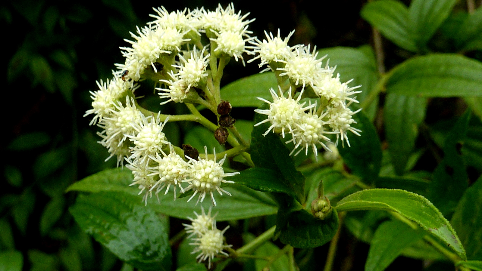 Baccharis trinervis in Entre Rios, Bahia, Brazil